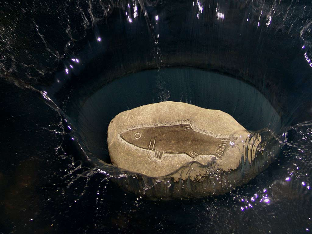 Over the past decade the artist has frequently traveled to cities and remote regions and locations on every continent and has dropped or cast many of his stones carved with the image of fish into rivers, canals, reservoirs and seas. He captured the moment when his ‘stone fish’ meets the water. Through this ritual action, his wish is to bring a better environment, for life and fertility for all mankind.